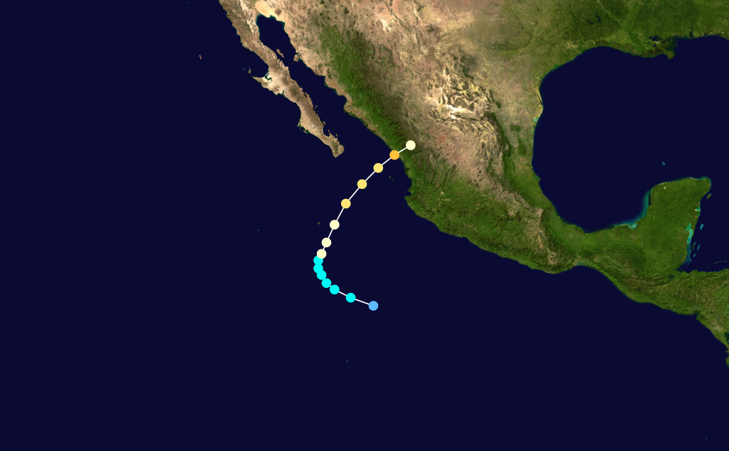 Hurricane Olivia (1975) track. Uses the color scheme from the Saffir-Simpson Hurricane Scale.